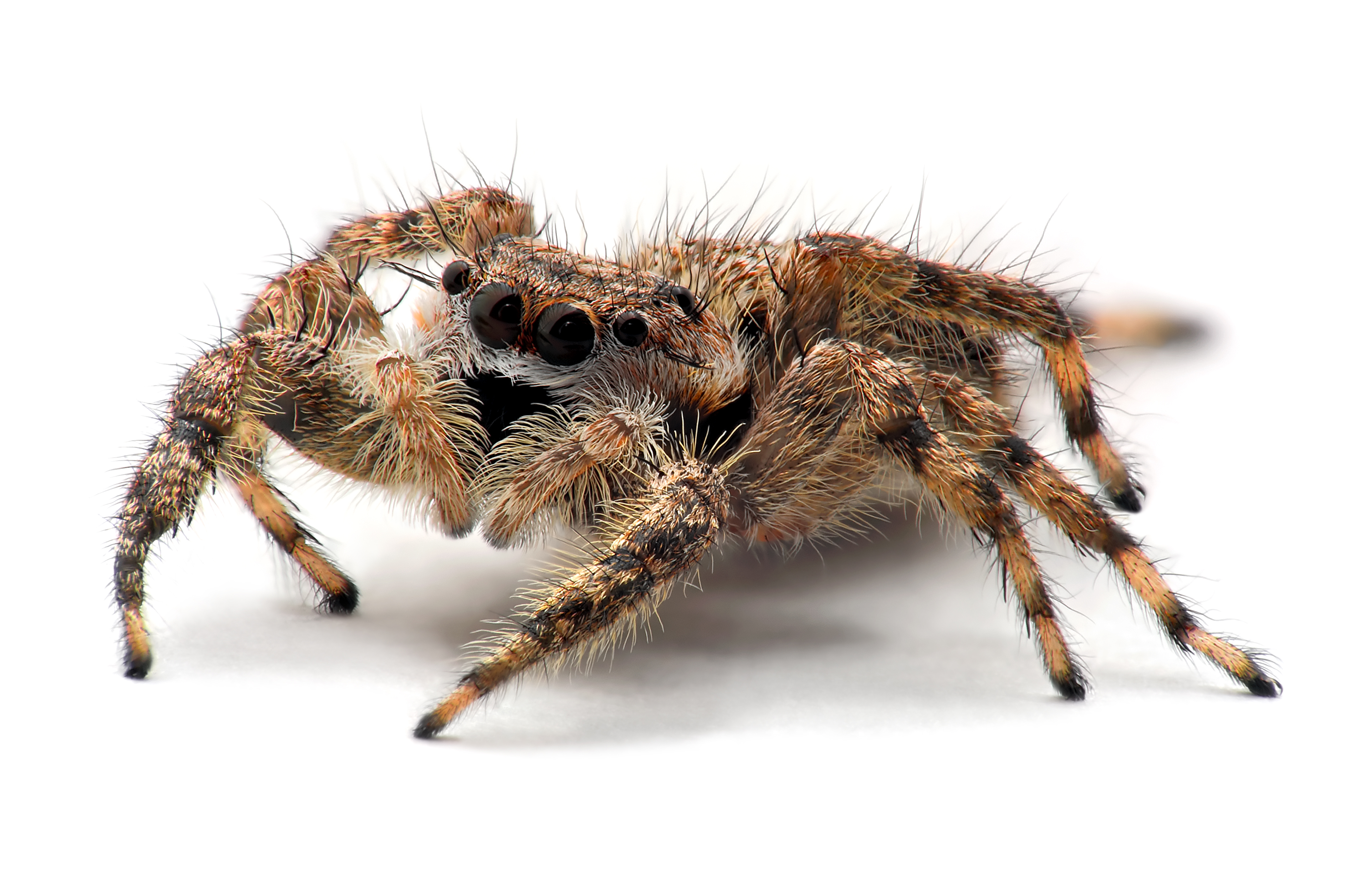 A 9 millimeter-long female jumping spider found in Newport News, Virginia. The lens setup utilized was a Nikon 50mm f/1.4D reverse mounted on a Nikon 70-300mm f/4-5.6G . 13 images of variable focus were captured and composited in CombineZM, a focus stacking program.